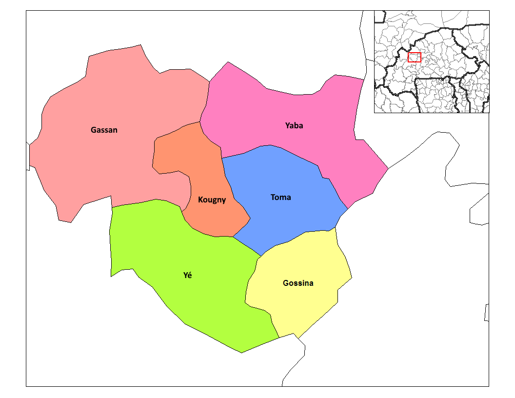 This map has been uploaded by Osiris fancy from to enable the Wikimedia Atlas of the World. Original uploader to was Rarelibra. Osiris fancy is not the creator of this map. Licensing information is below. Map of the departments of Nayala province in Burkina Faso. Created by Rarelibra 03:30, 30 September 2006 (UTC) for public domain use, using MapInfo Professional v8.5 and various mapping resources.